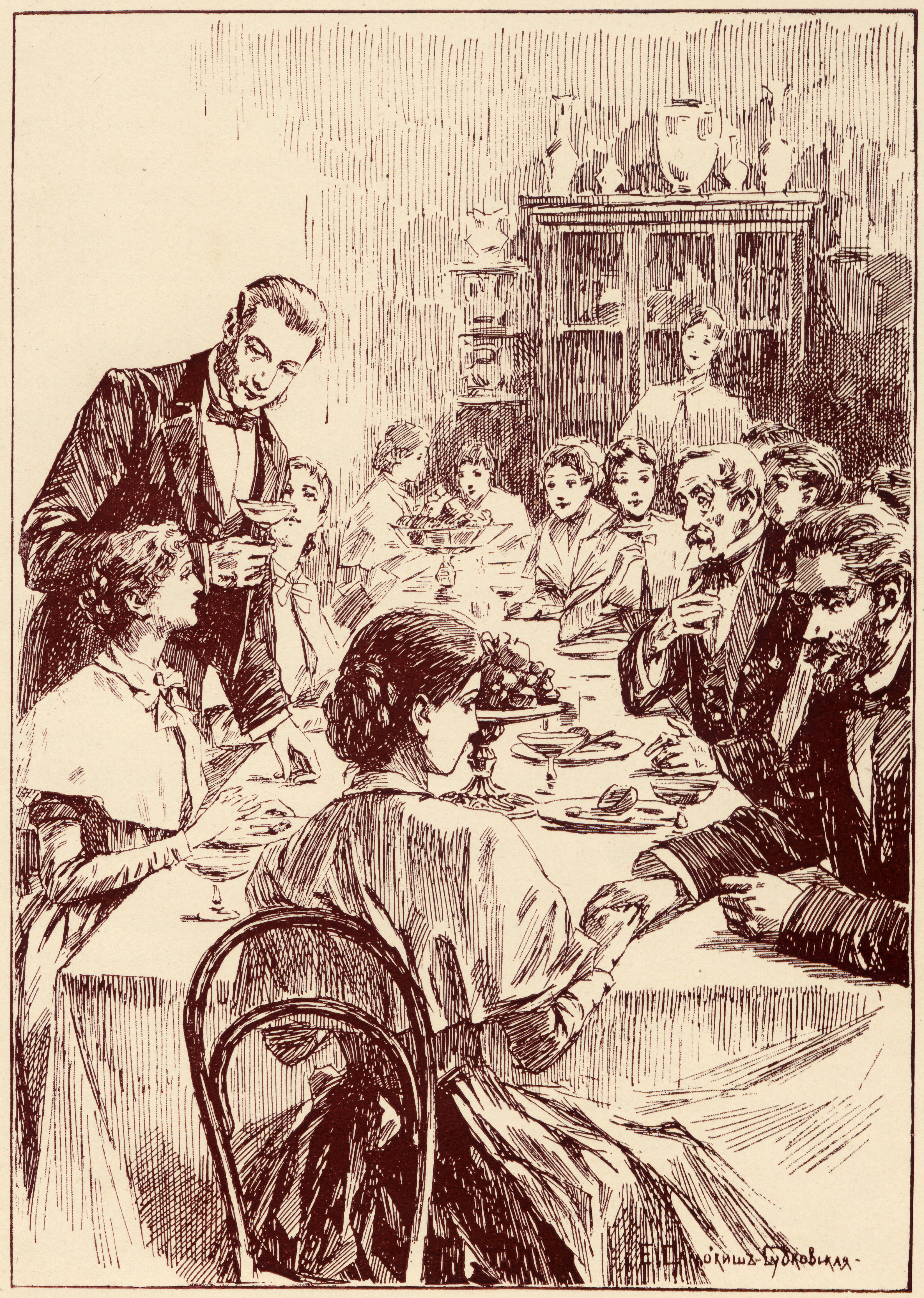 Illustration to chapter XII. Lunch after the finals